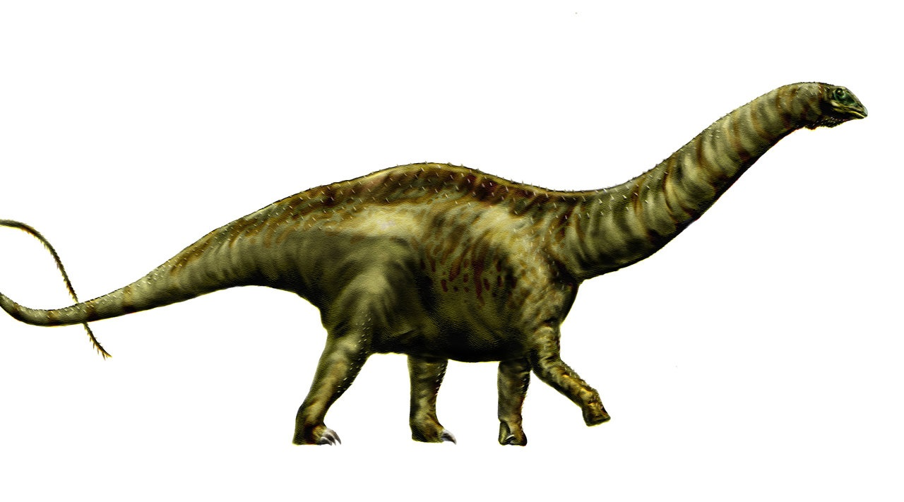 Illustration of the diplodocid Apatosaurus louisae, a species related to A. excelsus (formerly Brontosaurus). The spine placements are speculative based on evidence for small spikes along the backs of diplodocids.